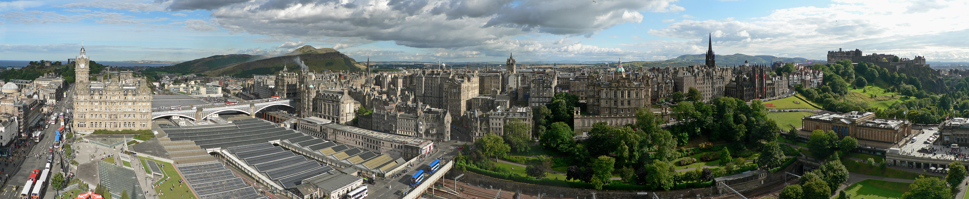 The most beautiful panorama of Edinburgh, seen from the Scott Monument.